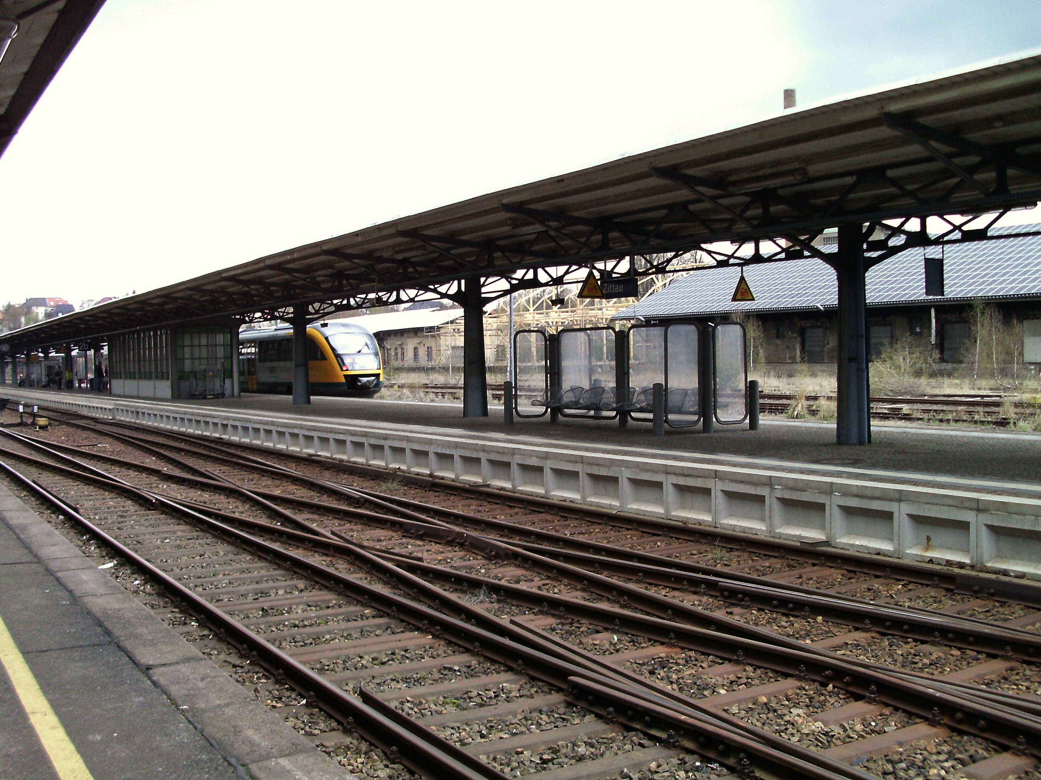 Platform 2/5 of Zittau station (Görlitz district, Saxony)